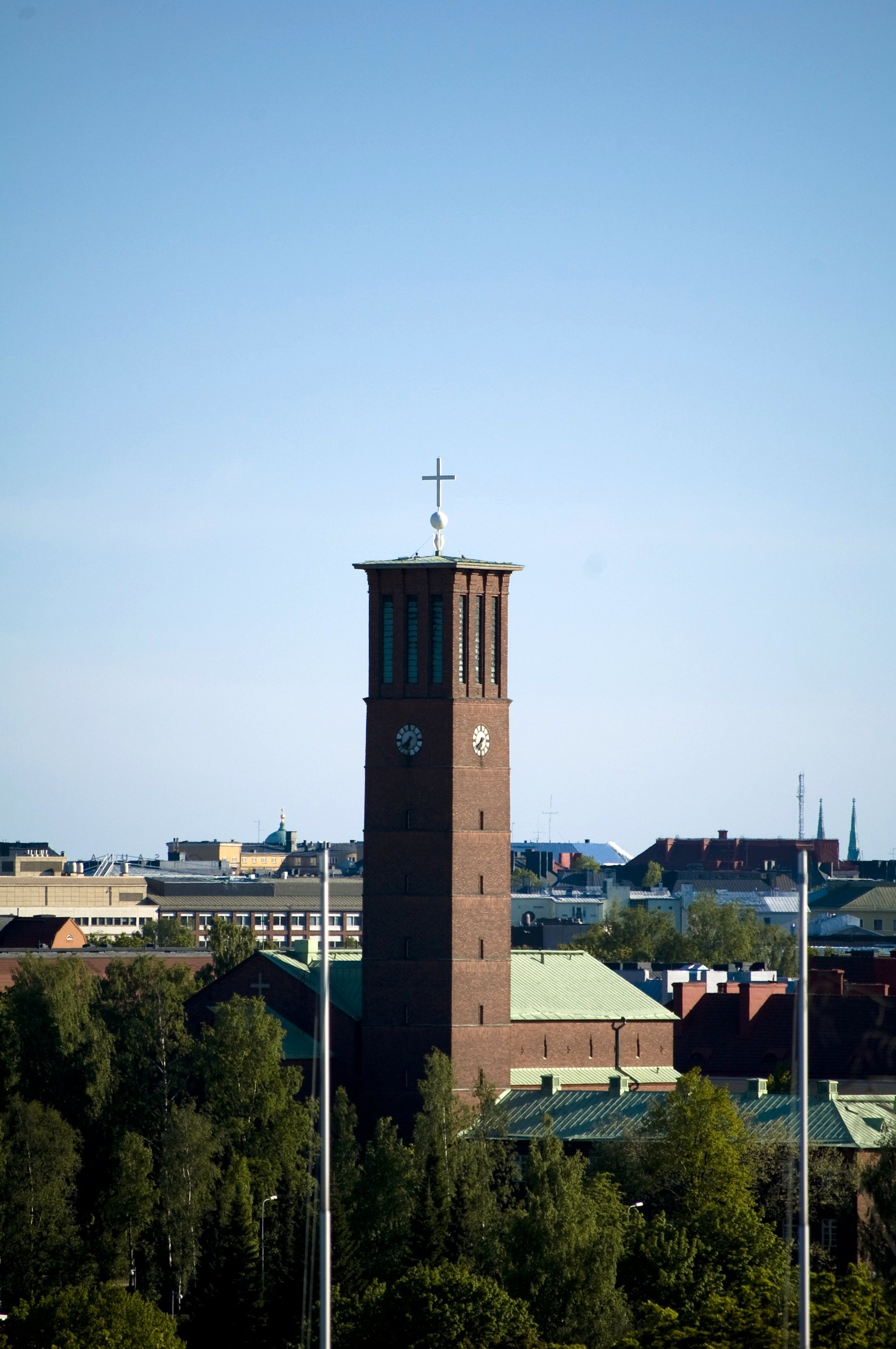 Paavali Church (Finnish: Paavalinkirkko) in Helsinki, Finland